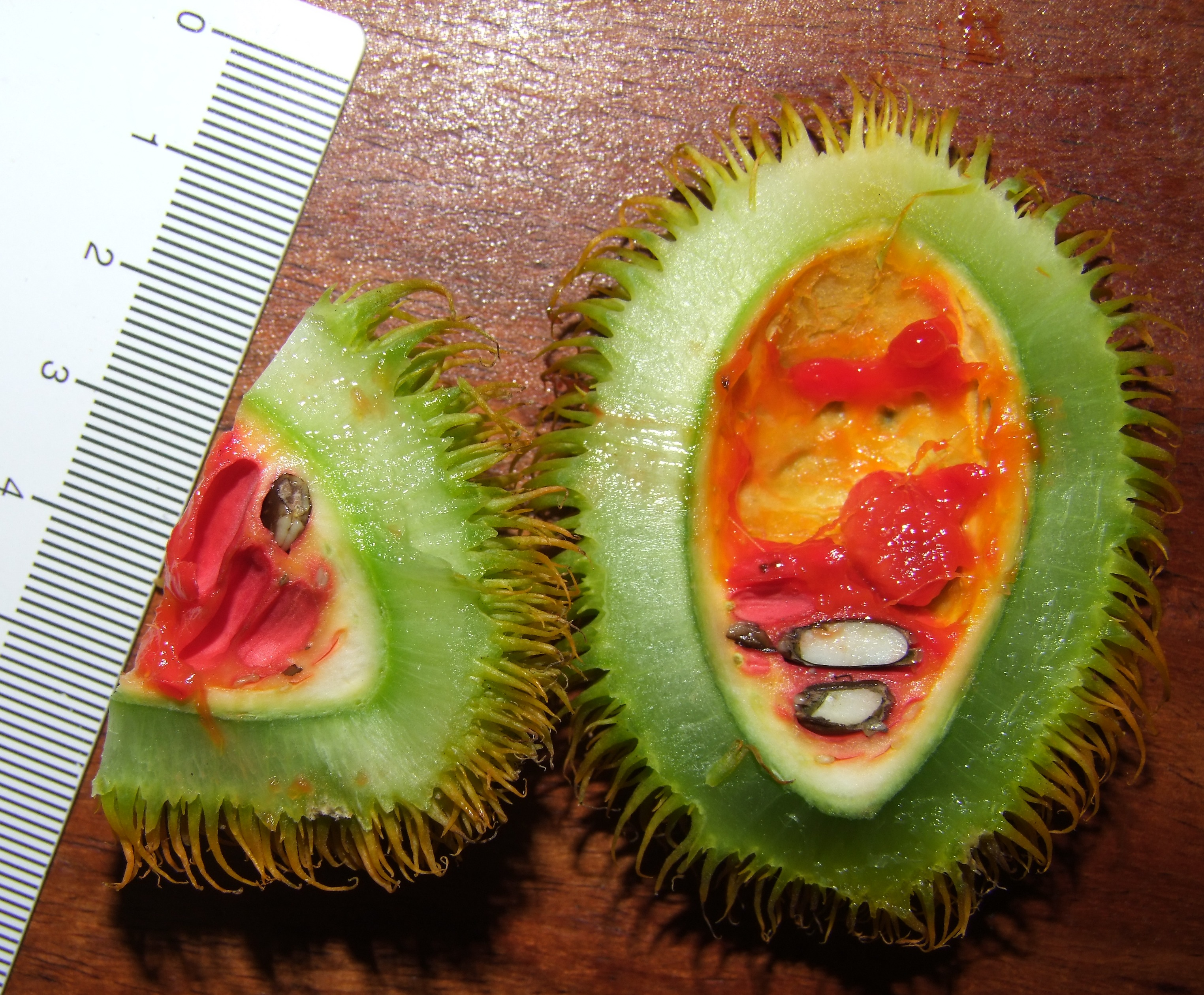 cut-through of an unripe fruit of Momordica foetida Schumach. collected SSW of Morogoro City, Tanzania scale unit on the left is cm